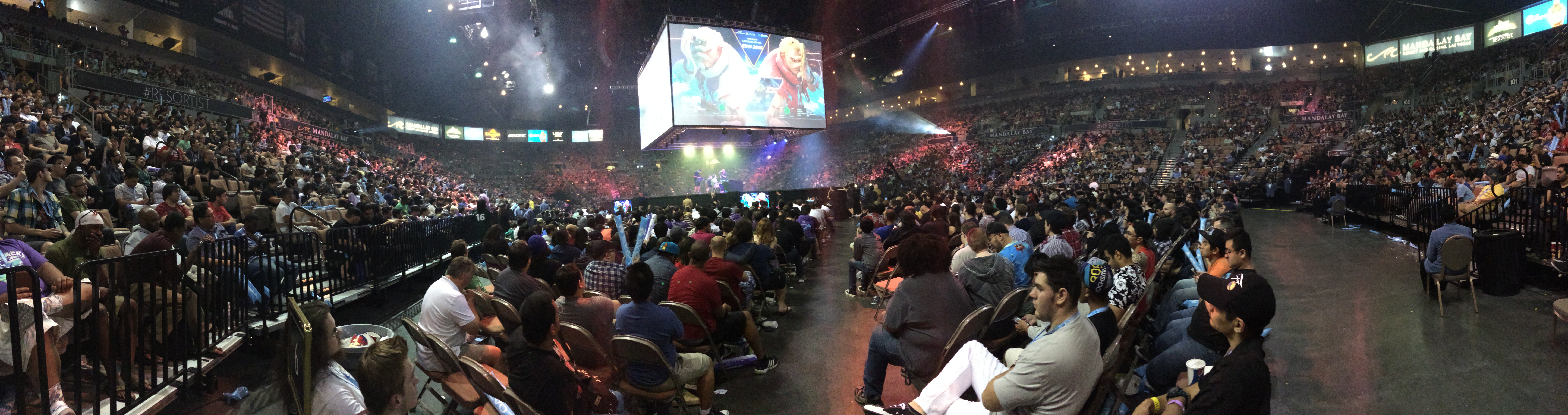 Panorama of Street Fighter V finals at the Madalay Bay Events Center during Evo 2016